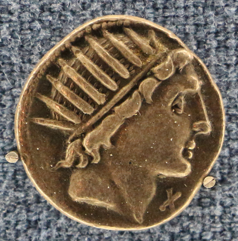 Ancient Roman coins in Palazzo Blu (Pisa)